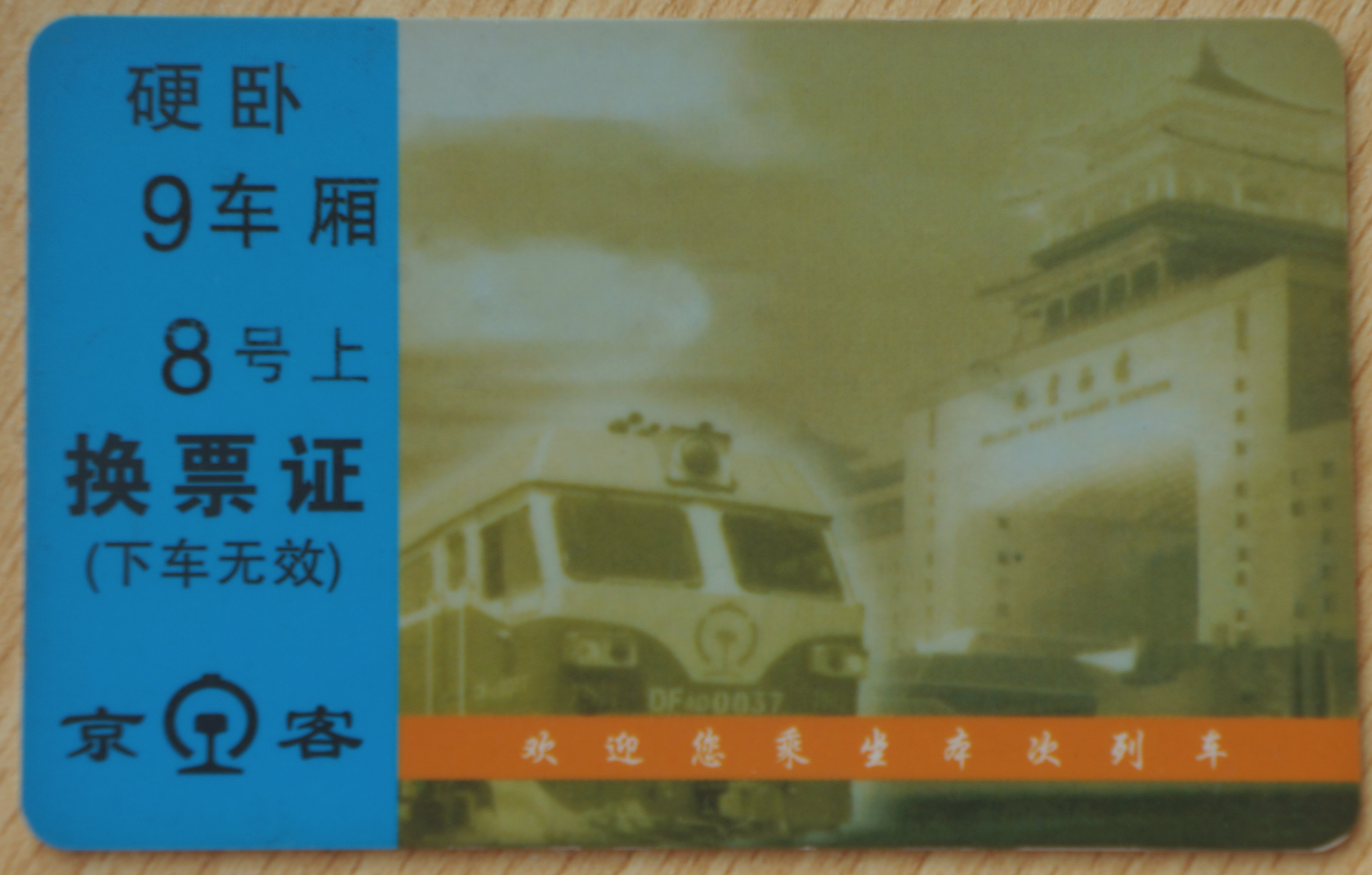 201606 Sleeper Card of Beijing Railway Bureau (Beijing Passenger Transport Department)